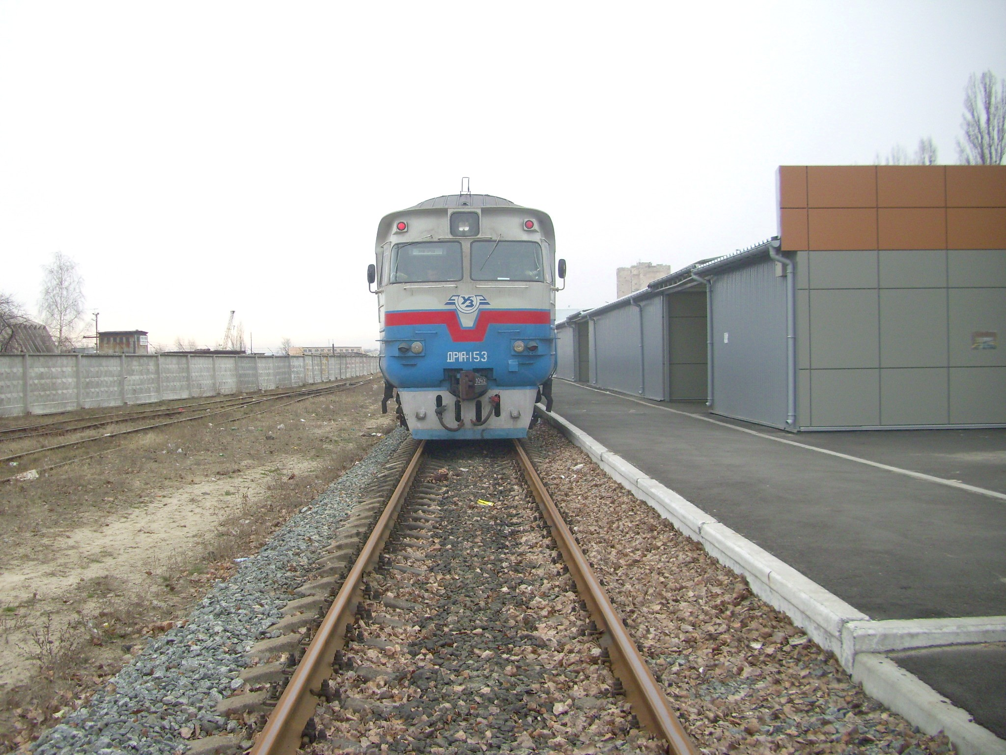 Vyshhorod Railway Halt in Vyshhorod, Kyiv Oblast, Ukraine